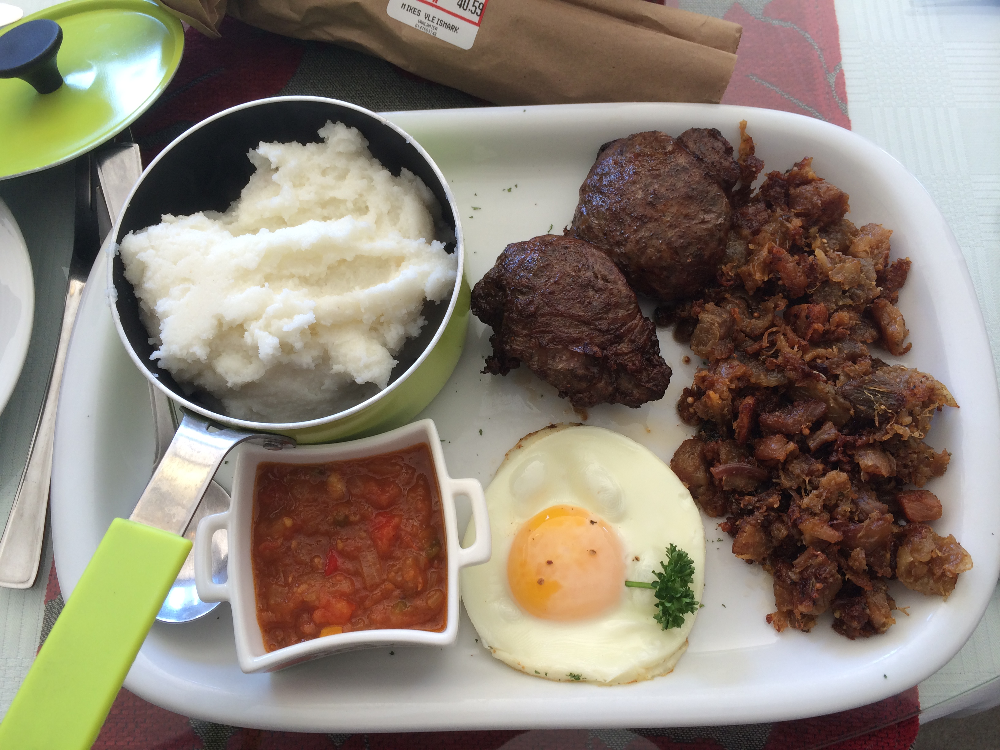 A farmer's breakfast in Vaalwater, Limpopo Province, South Africa.comprising an egg, skilpaadjies (Liver wrapped in caul, creating a tortoise-like pattern) and kaaiens (slow fried fatty bits similar to confit) and pap (maize porridge similar grits/nsima/polenta) This is an image of food from South Africa